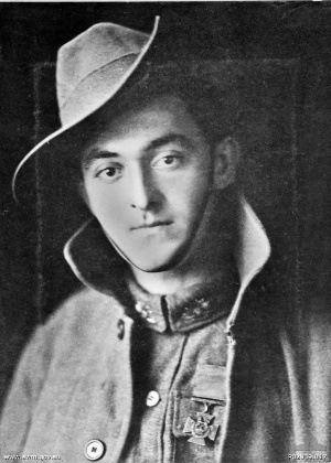 Portrait of Private (Pte) Thomas James Bede Kenny VC, 2nd Battalion. Pte Kenny was awarded the Victoria Cross for "most conspicuous and devotion to duty when his platoon was held up by an enemy strong point, and severe casualties prevented progress" on 9 April 1917 at Hermies, France. Pte Kenny, dashed toward the enemy's position and killed one enemy soldier who attempted to prevent him from reaching it. He then bombed the position, captured the gun crew and seized the gun. Pte Kenny returned to Australia in October 1918 and was discharged on 12 December 1918. He died after a long illness on 15 April 1953.